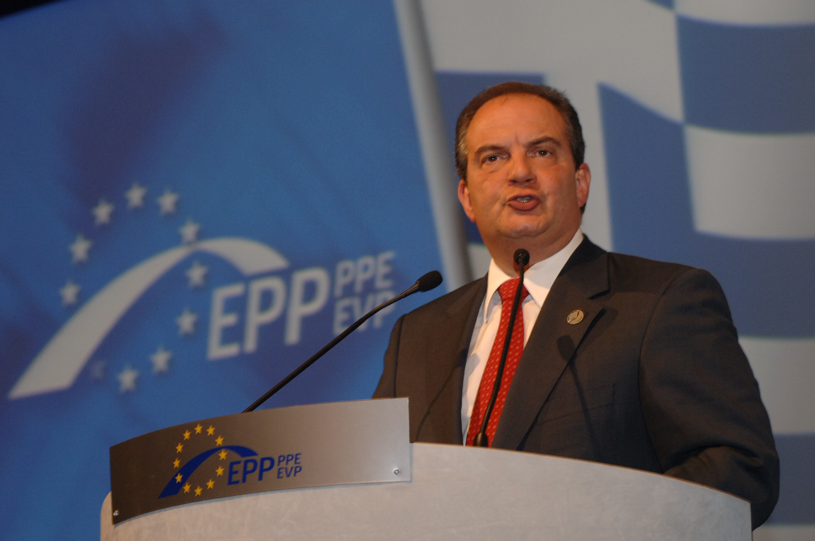 EPP Congress Rome 2006